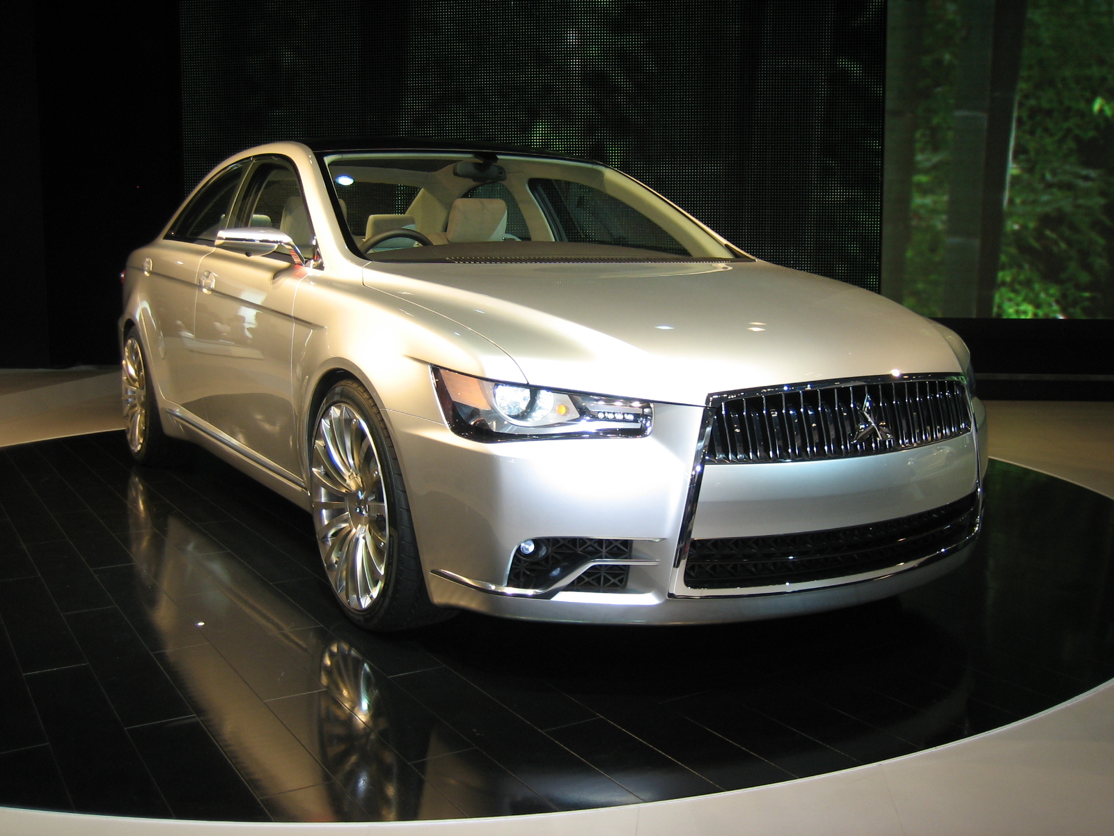 Mitsubishi concept ZT in Tokyo motor show